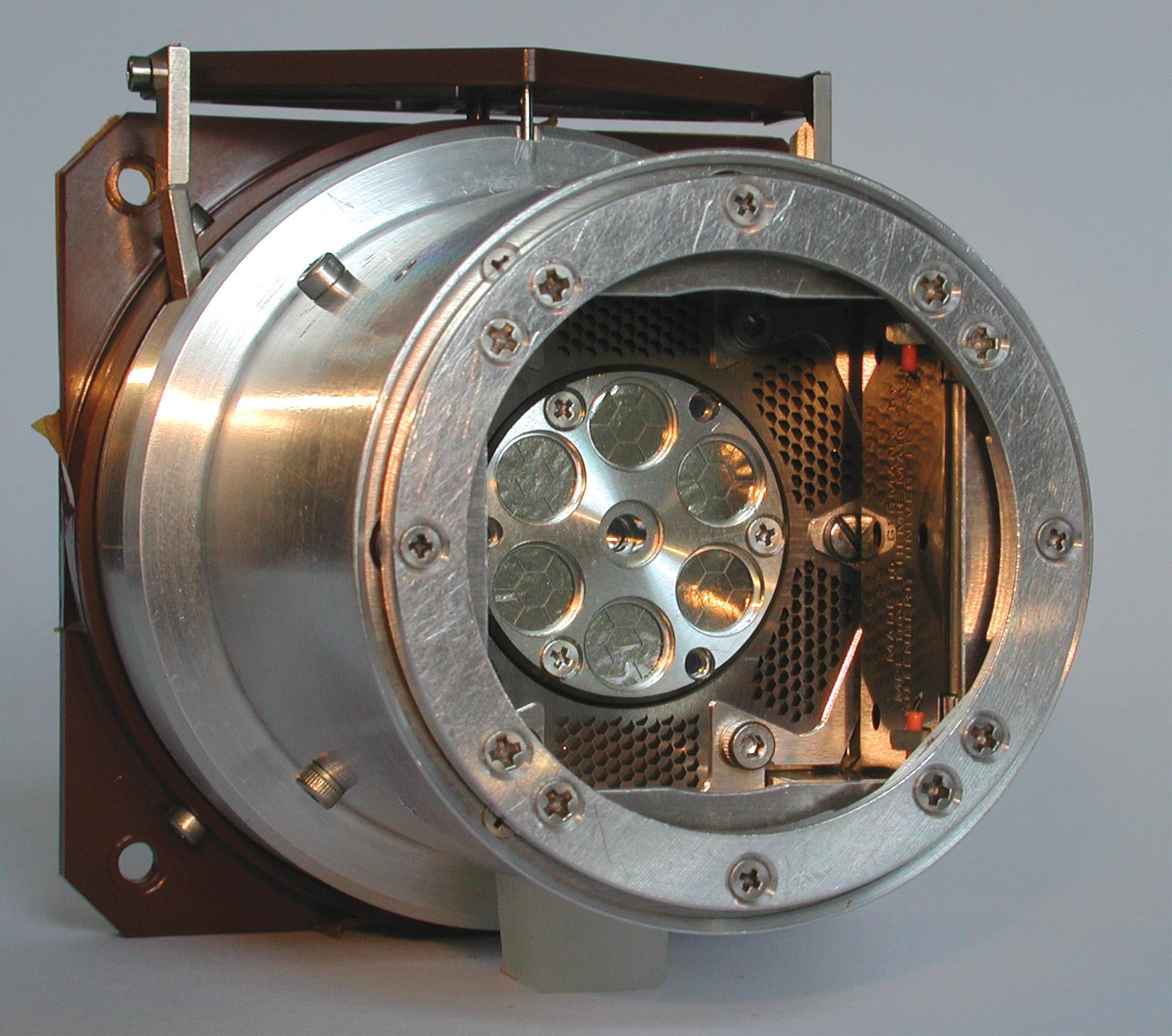 Located on the arm of the Mars Exploration Rover Spirit, the alpha particle X-ray spectrometer uses alpha particles and X-rays to determine the chemical make up of martian rocks and soils. This type of information helps scientists understand how the planet's crust was weathered and formed. Mars Exploration Rover team members used this palm-sized instrument on a small patch of martian soil just after Spirit rolled off the Columbia Memorial Station. They found that although the soil was very similar to what they had seen previously on Mars, the instrument's improved sensitivity allowed them to see new elements and subtle differences not detected before.